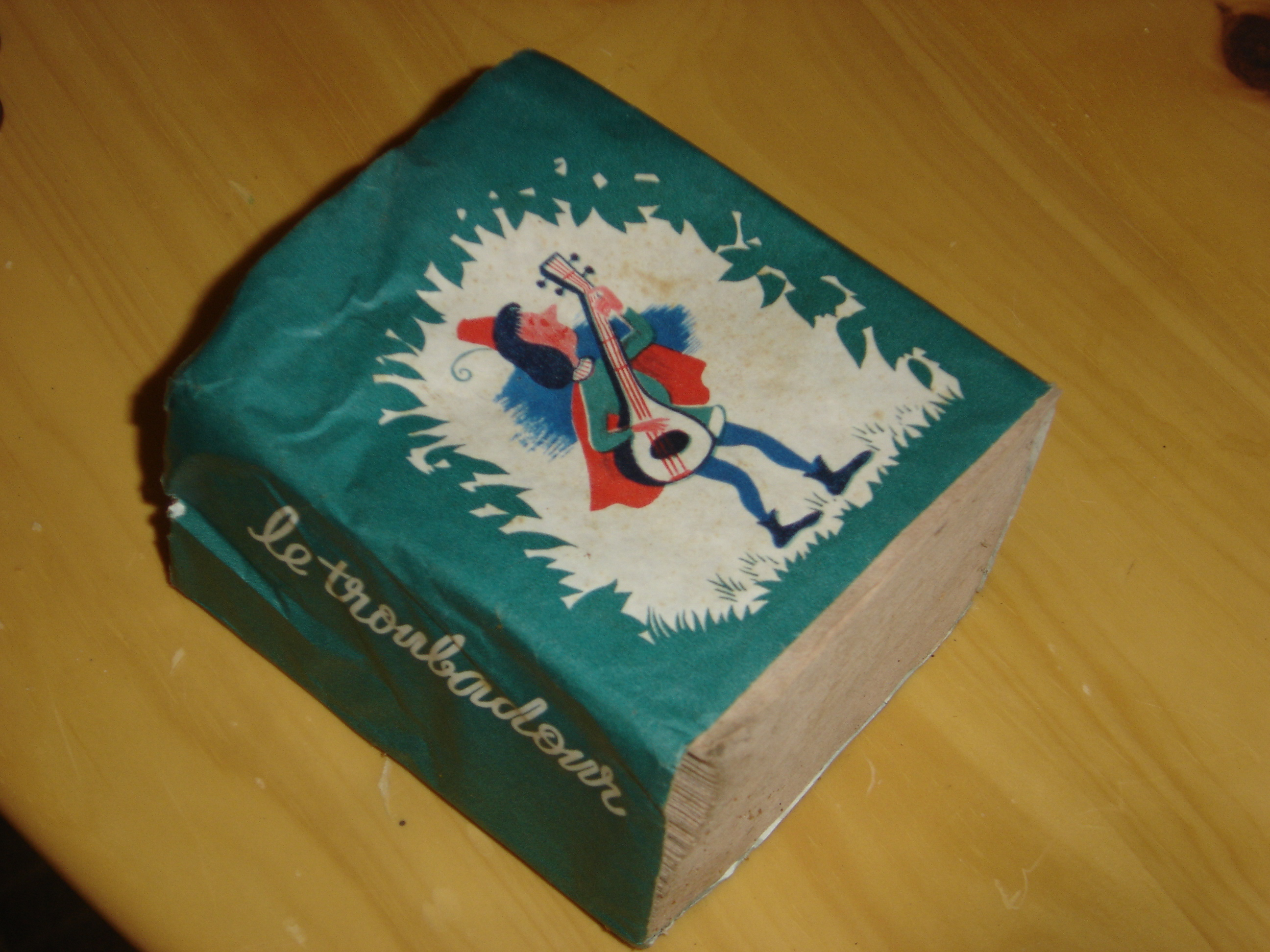 1960's package of toilet paper manifactured in France